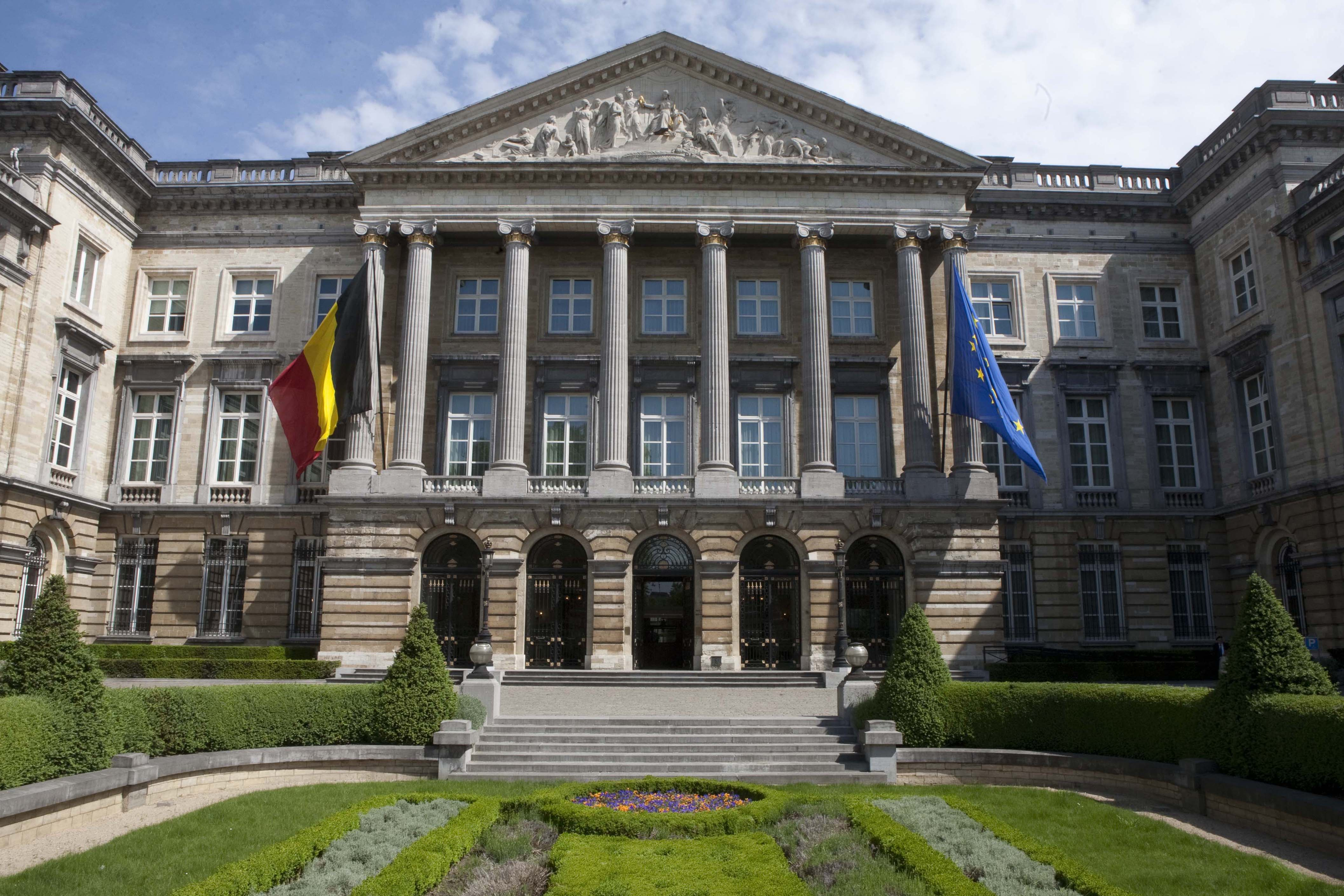 Palace of the Nation in Brussels, home to both Chambers of the Federal Parliament of Belgium